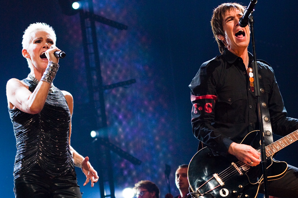 Roxette live on stage during 'Night of the Proms' at the 'Gelredome' in Arnhem, the Netherlands. For more information, please refer to